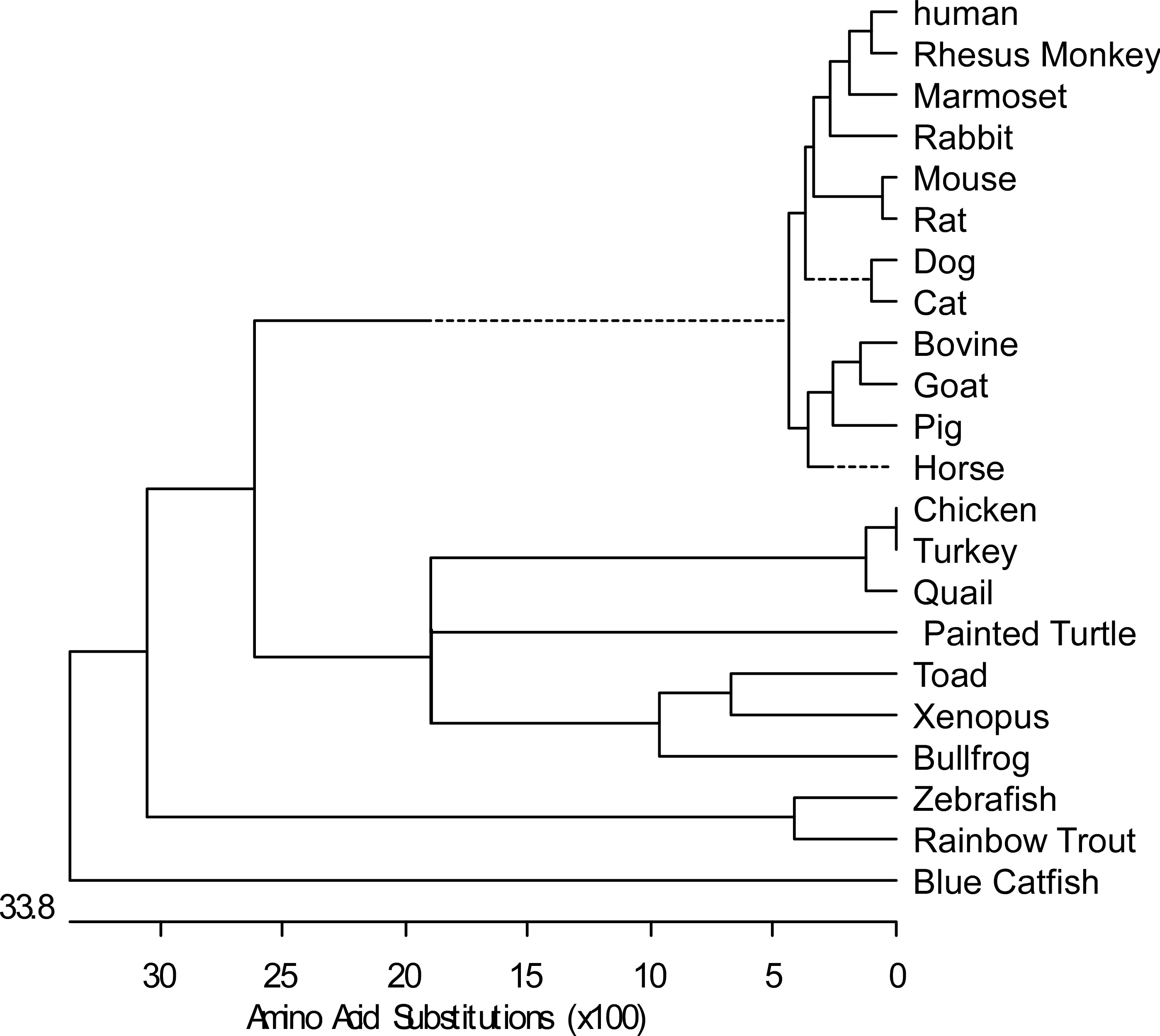 cTnI align